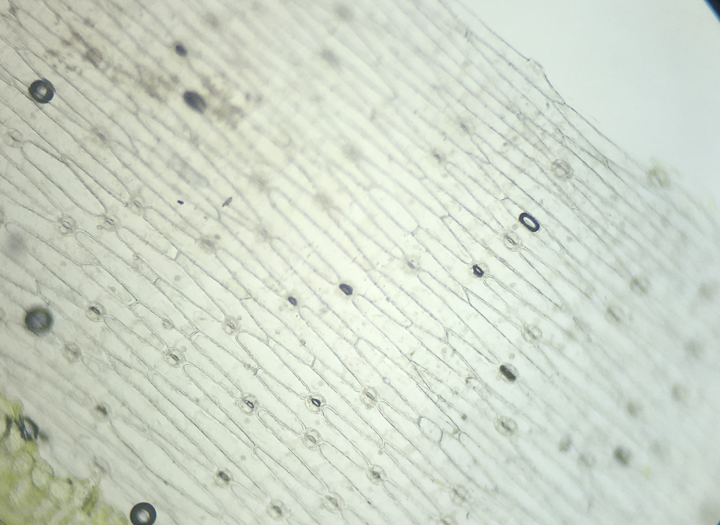 Leaf epithelium with stomata in evidence. Large epithelial cells and rounded guard cells can be observed. Inside these cells, which delimit the stomatic pore, can be observed some chloroplasts placed marginally. The observation was carried out with a light field optical microscope without the addition of dyes.